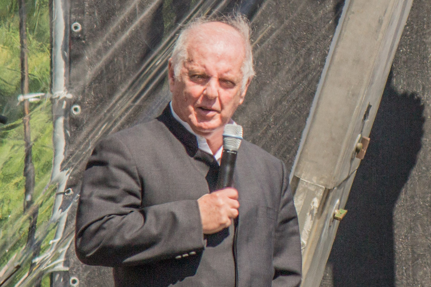 Daniel Barenboim @ Staatsoper für alle 2014 cropped